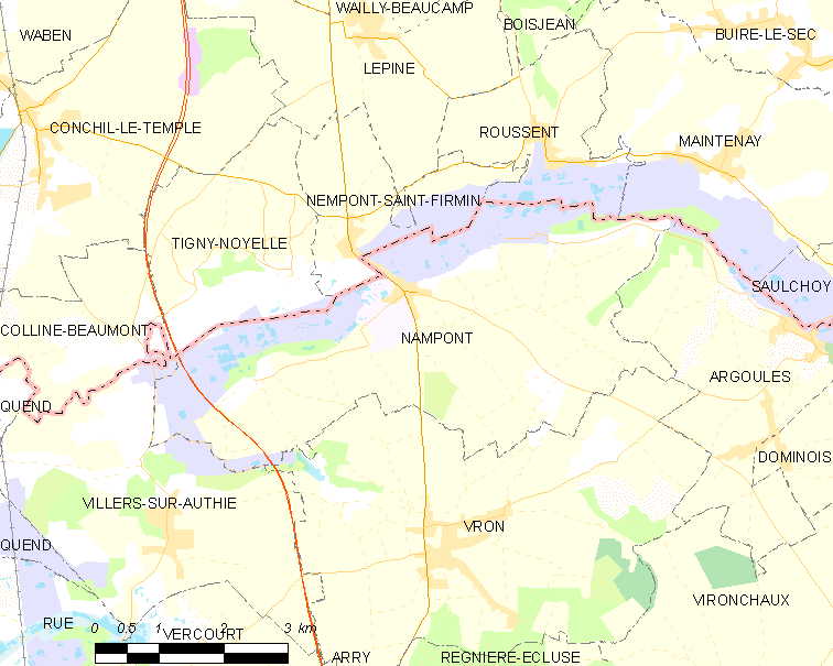 Map of French municipality Nampont